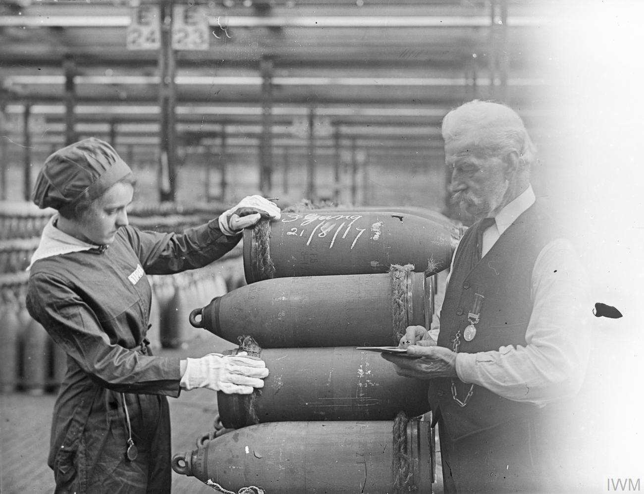 Munitions Production on the Home Front, 1914-1918 Amatol-filled shells are examined by workers at the National Shell Filling Factory at Chilwell, Nottinghamshire, 21 August 1917.